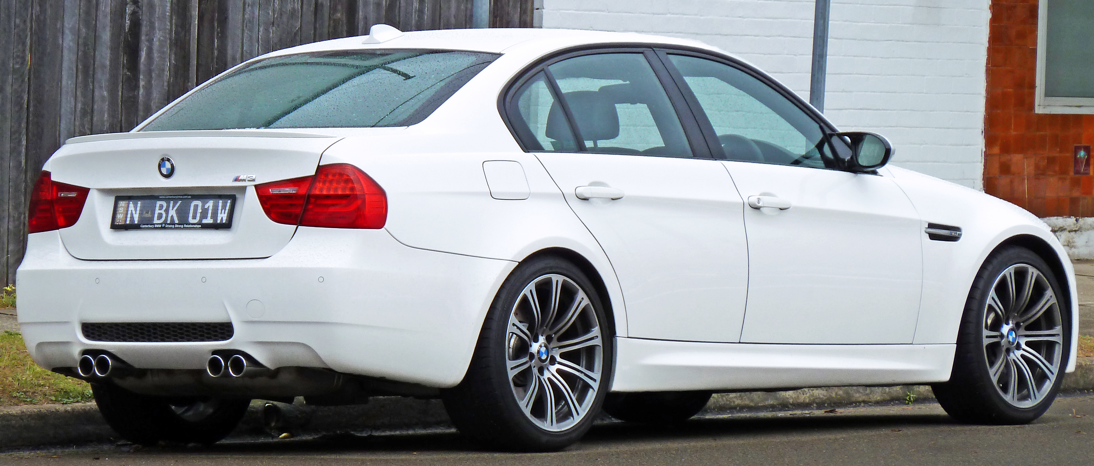 2008–2010 BMW M3 (E90) sedan. Photographed in Sans Souci, New South Wales, Australia.